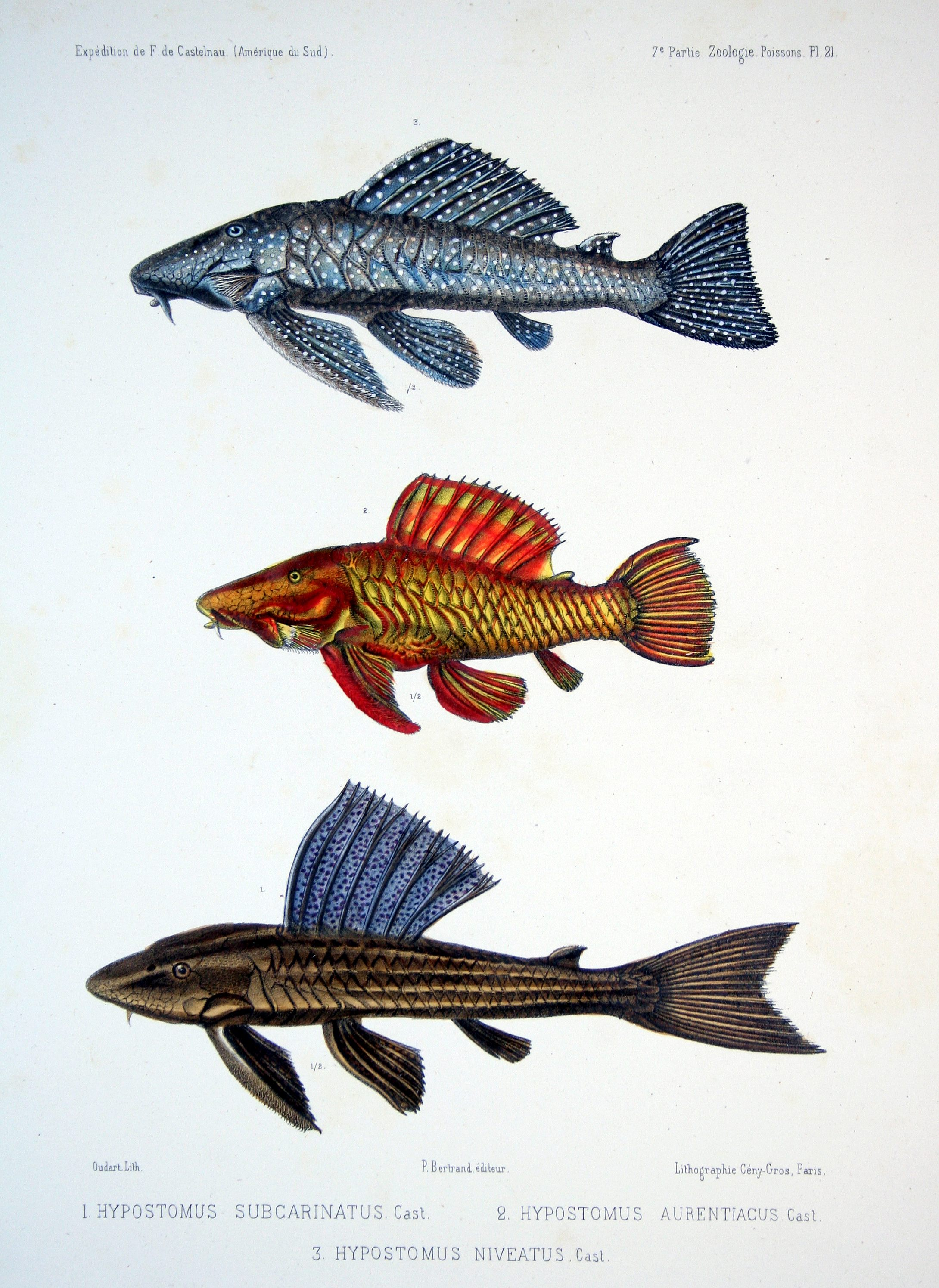 From top to bottom: Hypostomus niveatus = Baryancistrus niveatus Hypostomus aurentiacus = Parancistrus aurantiacus Hypostomus subcarinatus